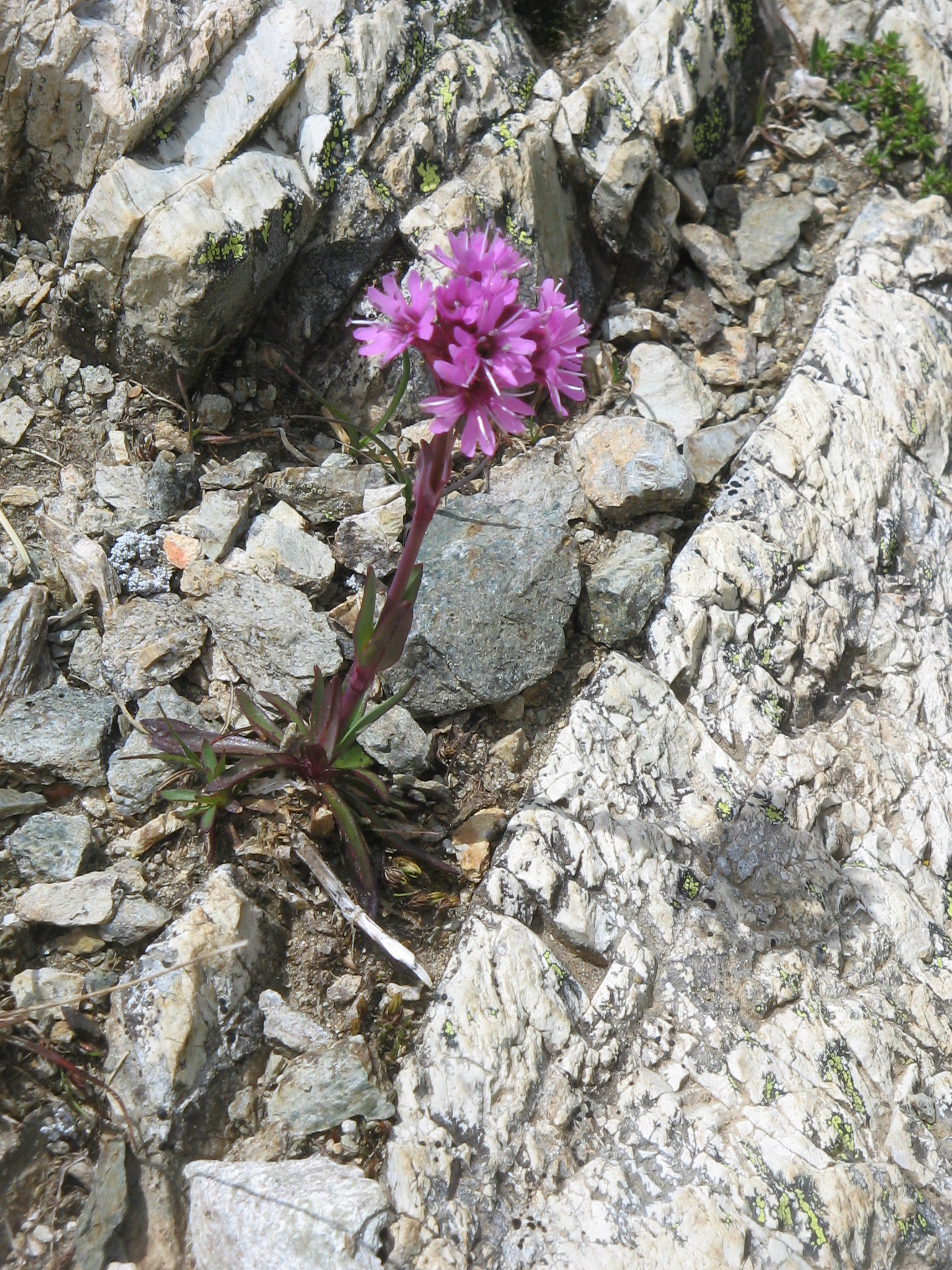 Viscaria alpina